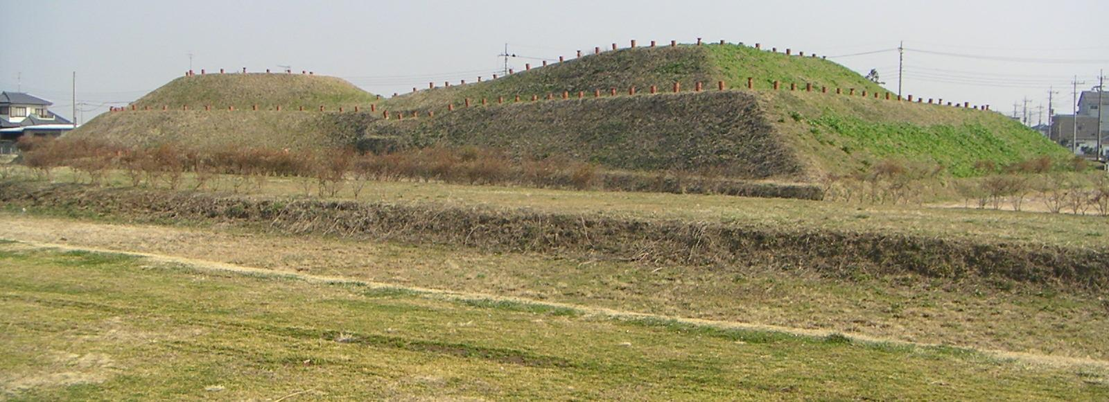 Shogunyama kofun in Saitama prefecture